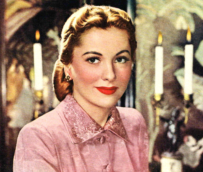 Photo of Joan Fontaine from a Rogers Bros. silverplate ad.